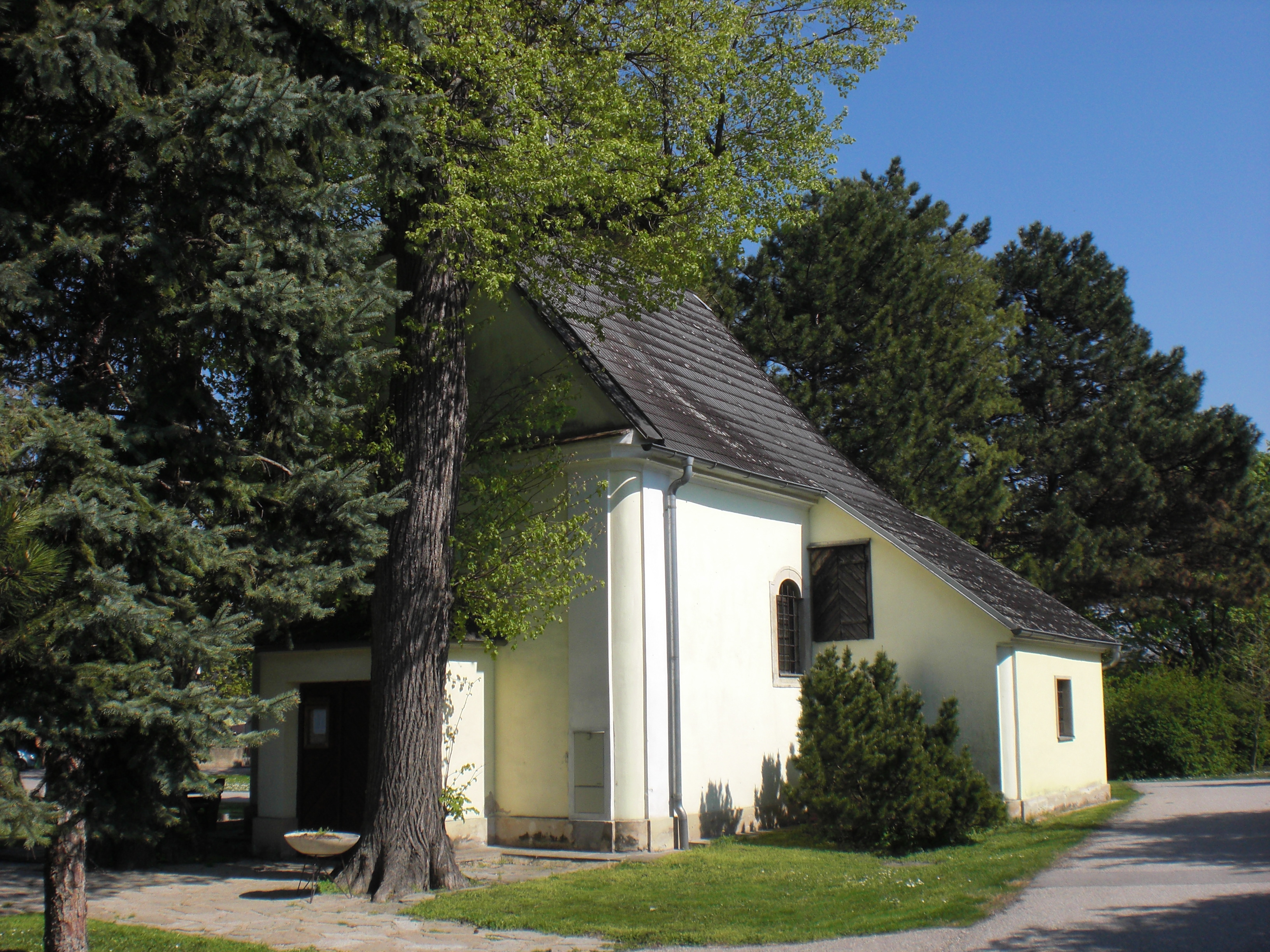 Catholic church St. Mary in Mühlleiten, Groß-Enzersdorf, Lower Austria